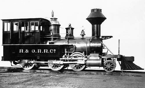 Rondout and Oswego locomotive #7. This picture was taken by the Danforth Locomotive Works in 1871. Notice the wooden tracks the locomotive is on.